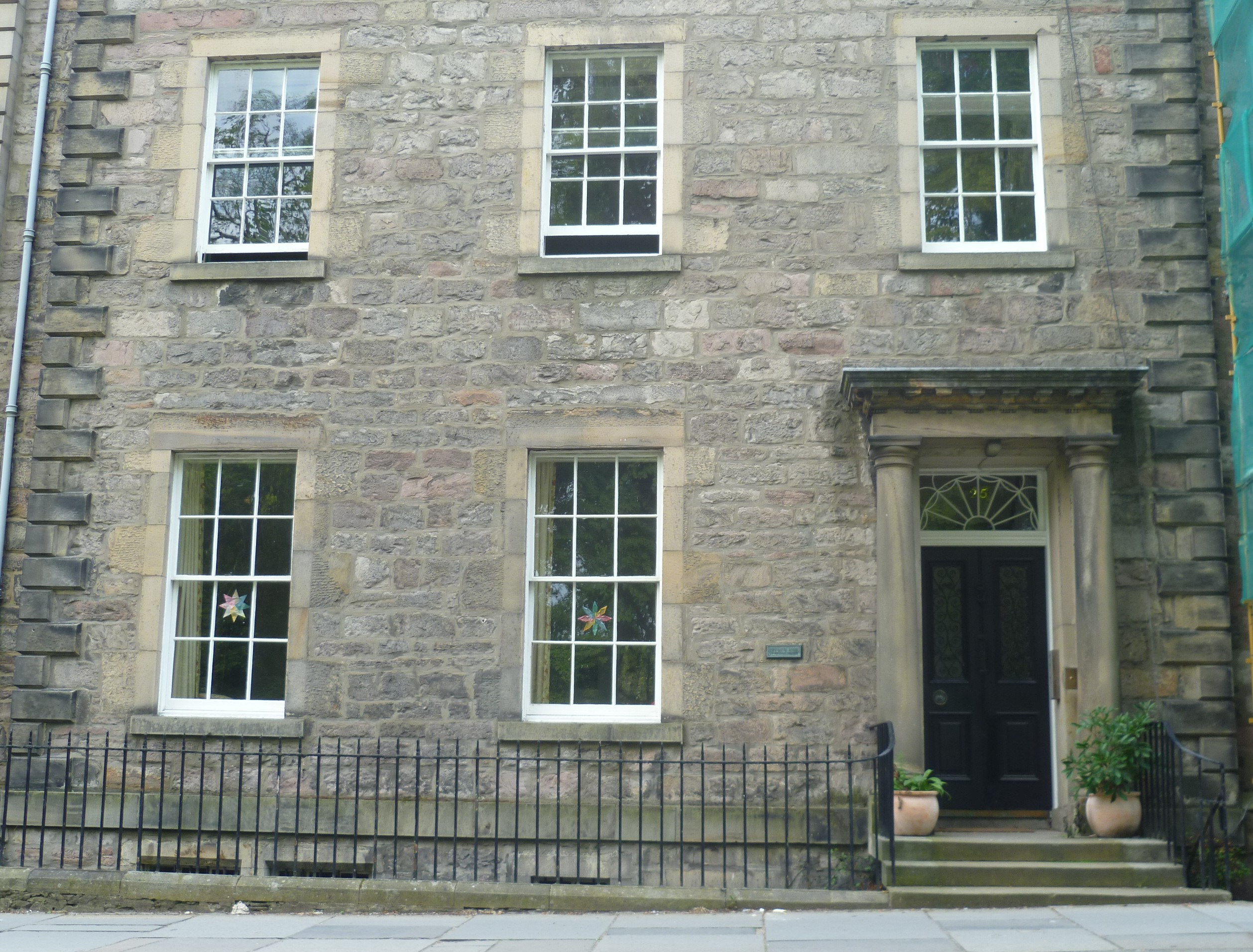 25 George Square. Scott's Home between the ages of 4 and 26 (from 1775-1797) before he became a successful author and moved to Castle Street in the New Town.